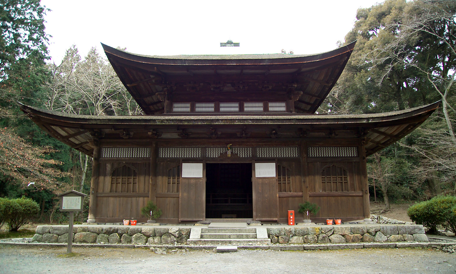 This building is the Issaikyō-zō 一切経蔵 at Mii-dera, a Buddhist temple in Otsu, Shiga Prefecture, Japan. This file Same exposure with verticals parallel I took the photo and contribute my rights in it to the public domain; individuals and organizations retain rights to images in it.